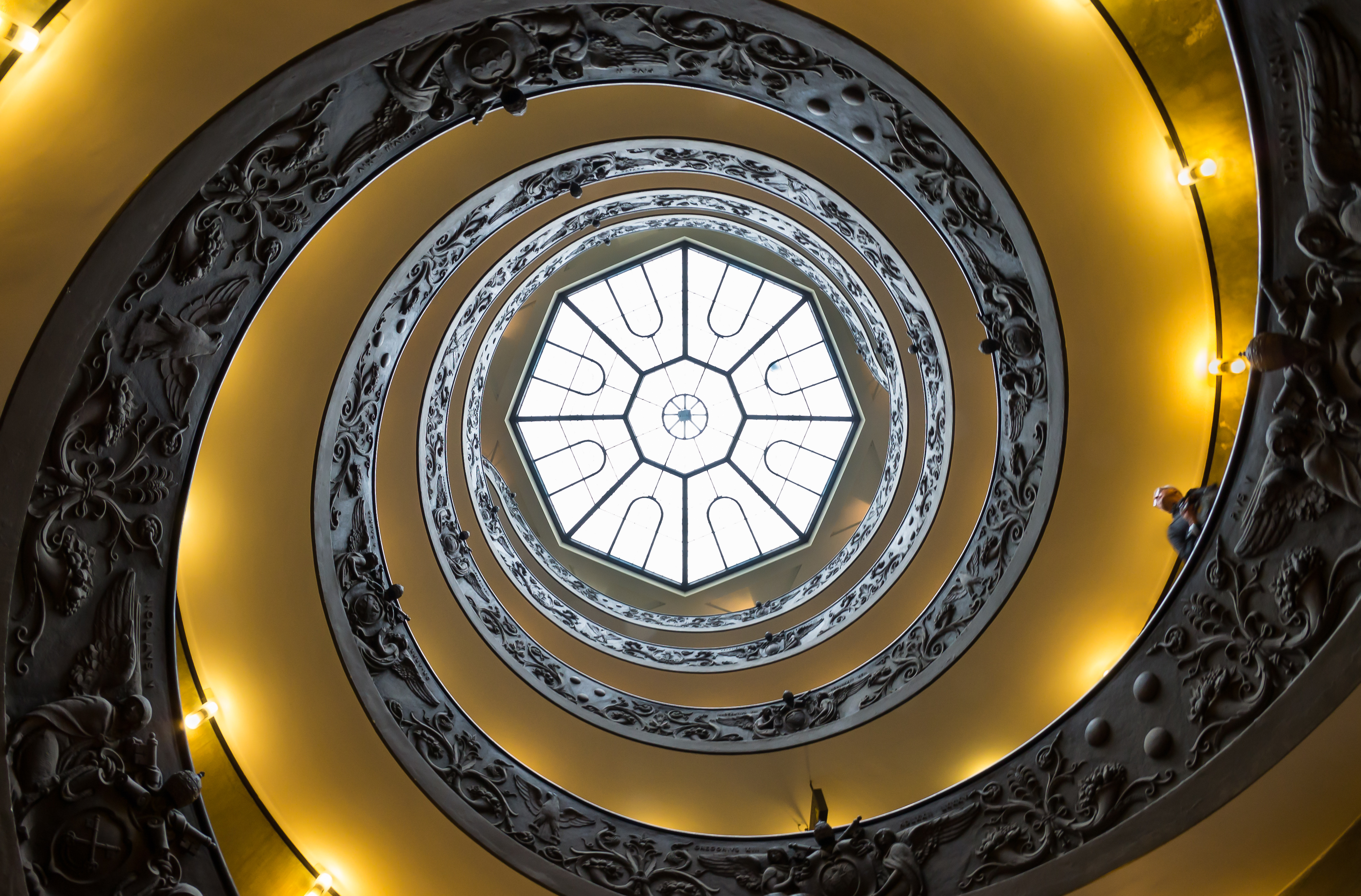 Looking up from the bottom of the double spiral staircase designed by Giuseppe Momo for the Vatican Museums 1932. This image was taken with a Samyang 8mm fisheye lens at f8, 0.125s, ISO 400.